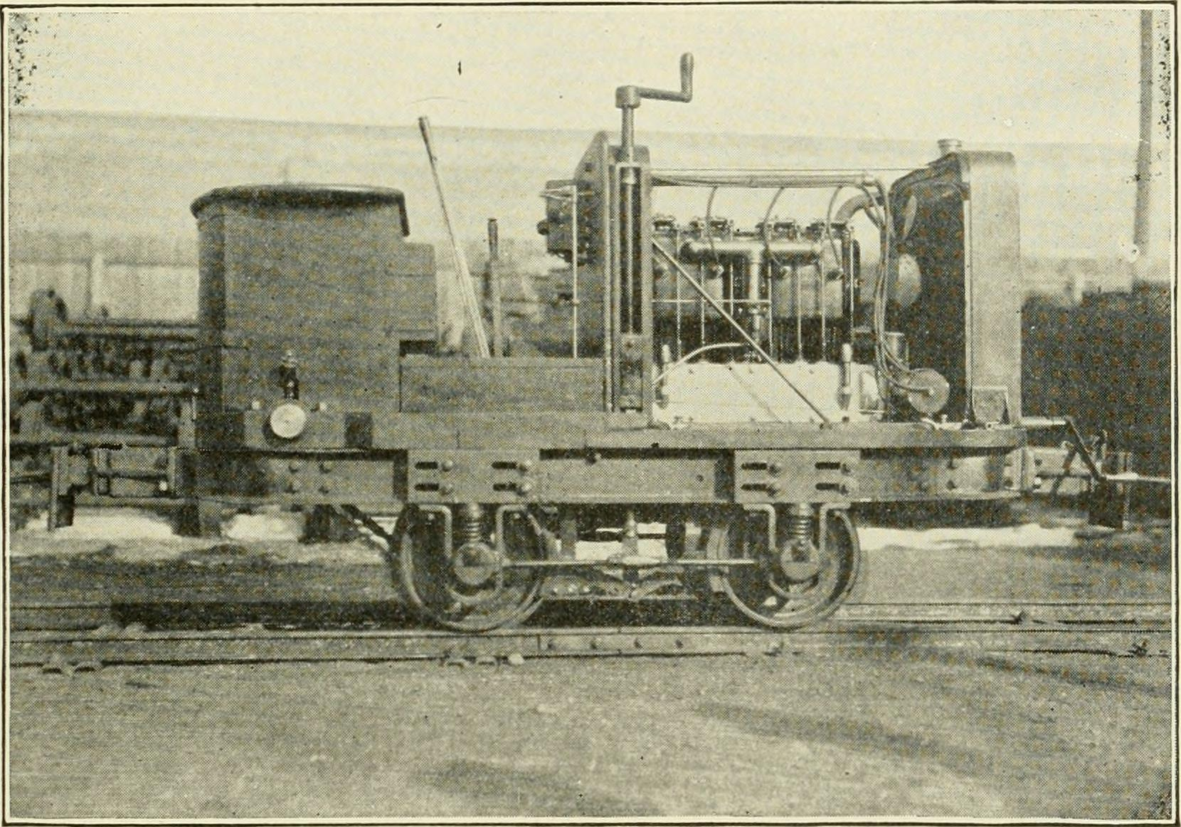 Title: Cyclopedia of applied electricity : a general reference work on direct-current generators and motors, storage batteries, electrochemistry, welding, electric wiring, meters, electric lighting, electric railways, power stations, switchboards, power transmission, alternating-current machinery, telegraphy, etc. Year: 1916 (1910s) Authors: American Technical Society Subjects: Electric engineering Publisher: Chicago : American Technical Society Text Appearing Before Image: SELF-PROPELLED RAILWAY CARS 5 four shafts, driven by the engine, may be used for drilHng holes inrails by operating through flexible or telescopic shafts. The powercan also operate a wood or metal saw, and, in connection with asmall auxiliary air compressor or electric generator, it can operateriveting tools or other air or electric devices at a distance from anypower plant other than the gasoline engine on the car. This car cantherefore furnish the power to drill rails, bond wires, drill ties, and Text Appearing After Image: Fig. 5. Gasoline Inclustrial Locomotive. to operate the machine for driving the screw spikes. It can spraypaint on bridges or operate a concrete mixer. It can drive drills fordrilling girders or for boring wood timbers, it being possible to runeight tools at one time. Gasoline Locomotives for Industrial Railways. Most large in-dustrial plants are provided with so-called industrial railways, thesebeing narrow-gauge tracks with light cars usually pushed by hand.These cars are used in transferring material of various kinds fromone part of the works to another, and are also used in such work asroad building, excavating, hauling of cement, pig iron, coal, ashes, etc. 409 6 SELF-PROPELLED RAILWAY CARS Fig. 5 shows a gasoline locomotive designed to haul ten loadedcars (tonnage 25), at a speed of eight to twelve miles an hour. Thelocomotive shown is a type built by the Ernst Wiener Co., New York.The engine of this locomotive is a four-cylinder, water-cooled, four